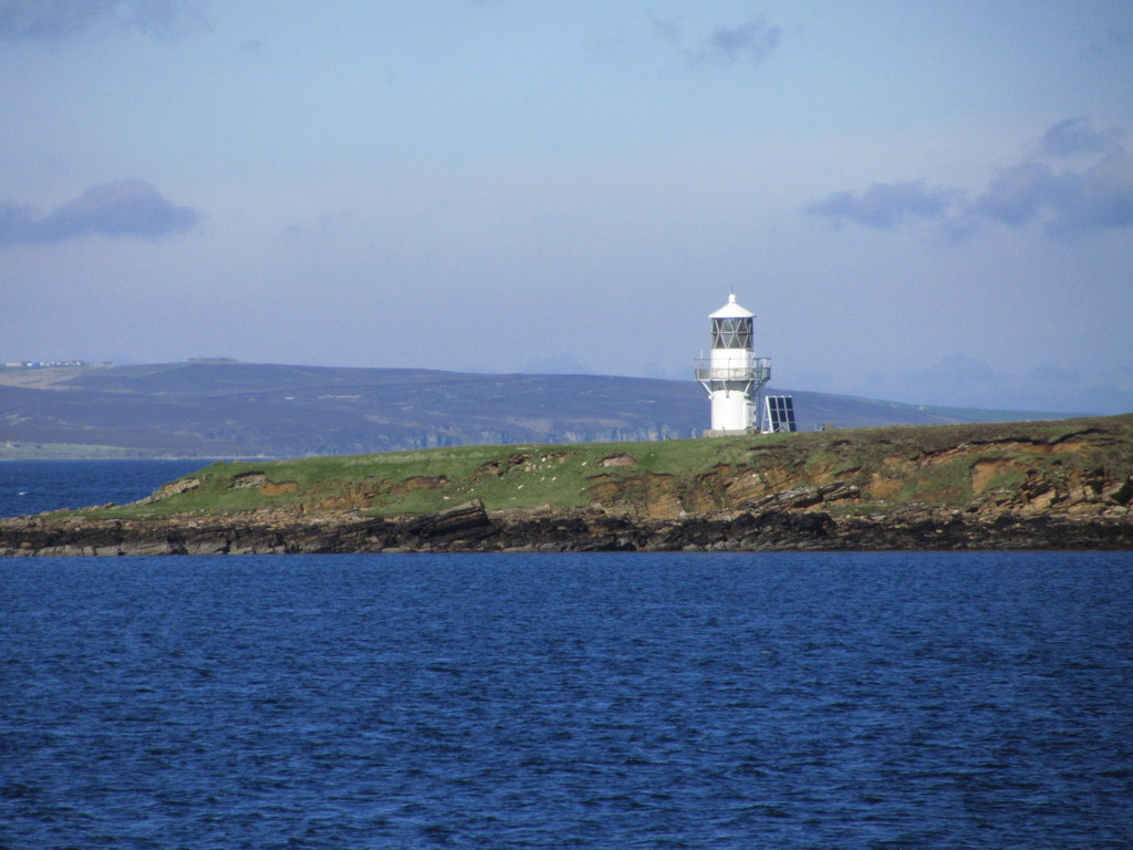 On board ferry from Lyness to Houton - View to Calf of Cava & Lighthouse